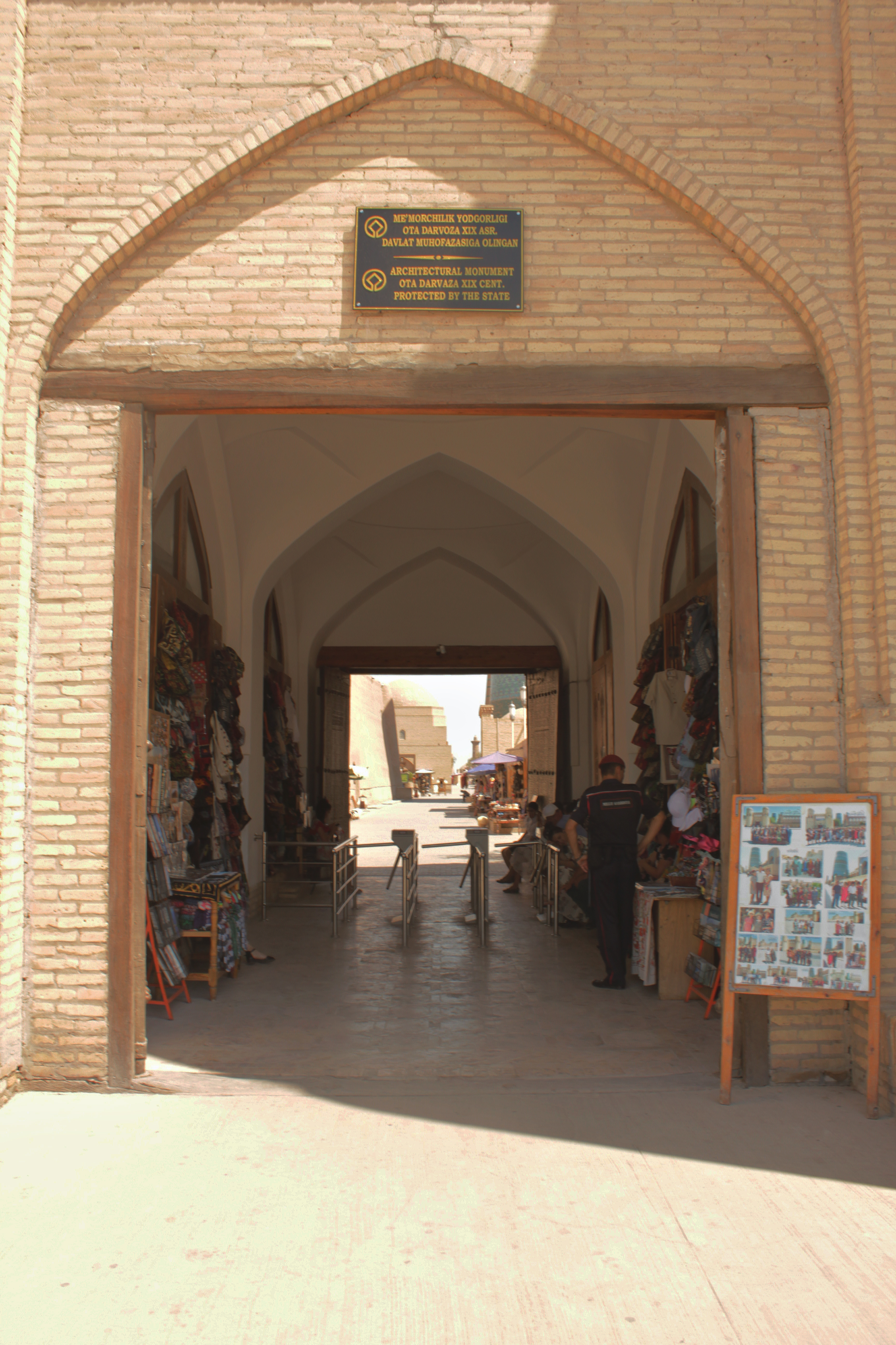 West gate "Ota Darvaza" of Itchan Kala in Khiva, Uzbekistan